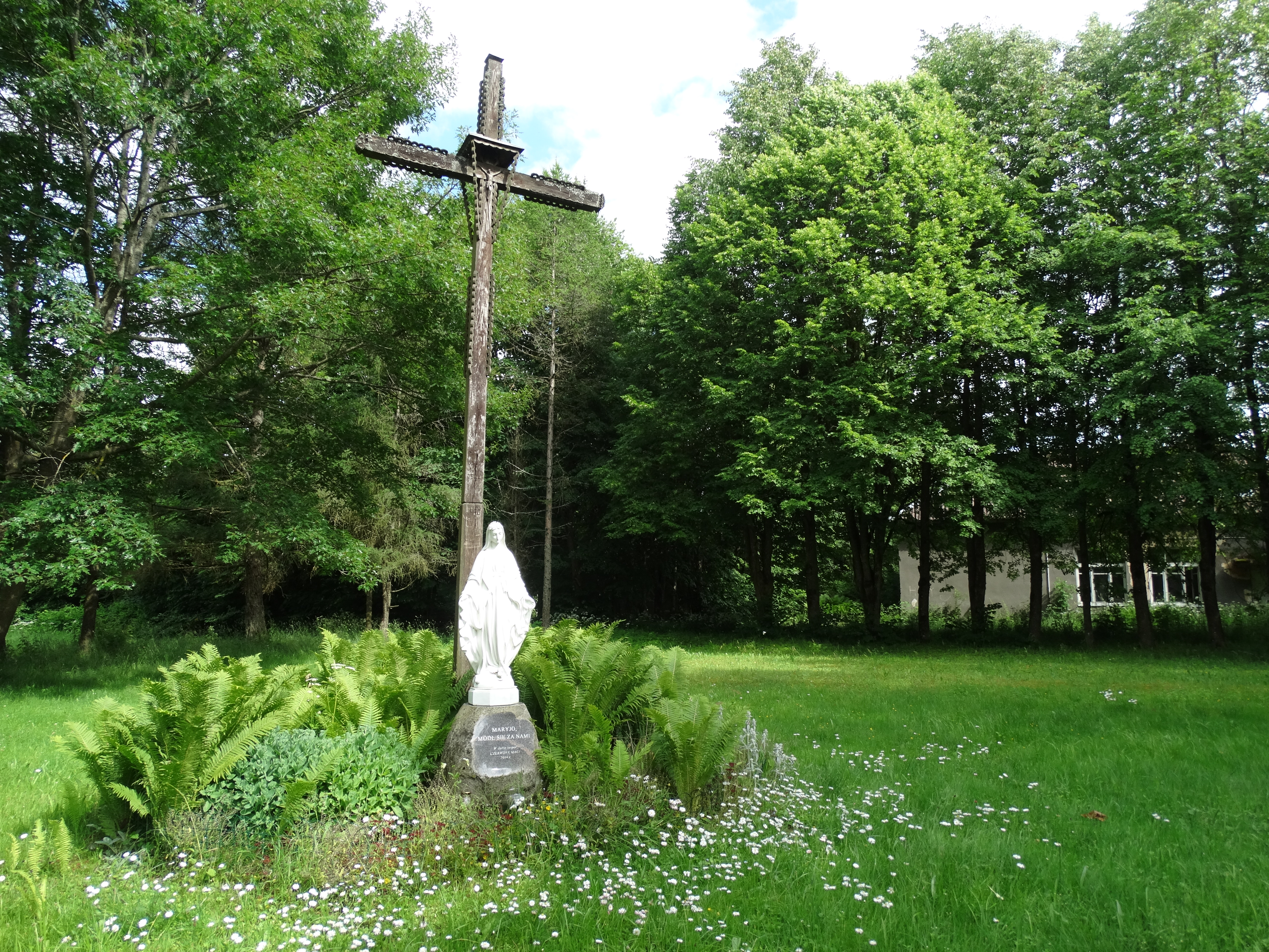 Jauniūnai, Širvintos District, Lithuania